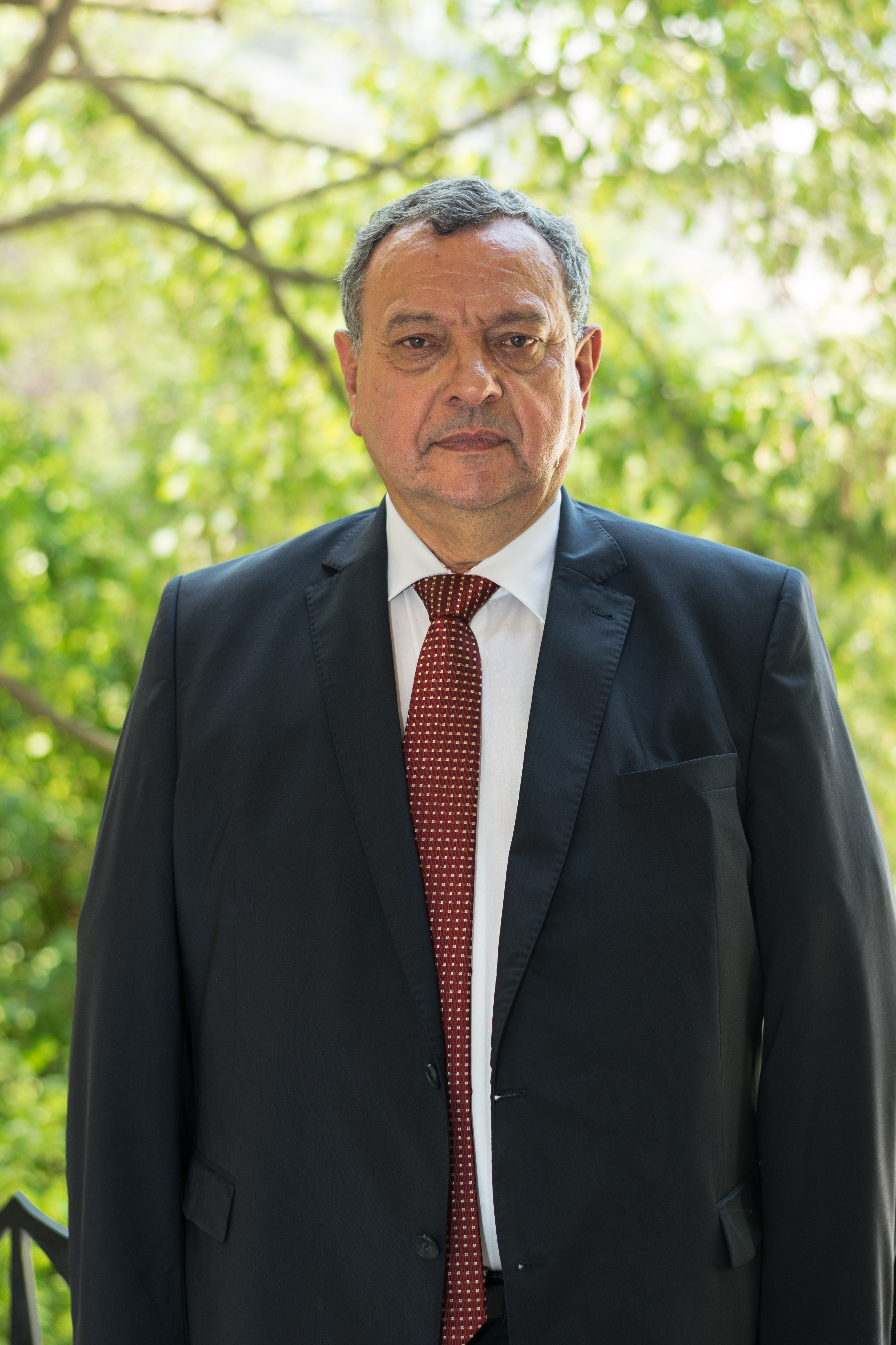 Jean-Claude Leclabart in the garden of the Quatres Colonnes in the Palais Bourbon (Paris, France).